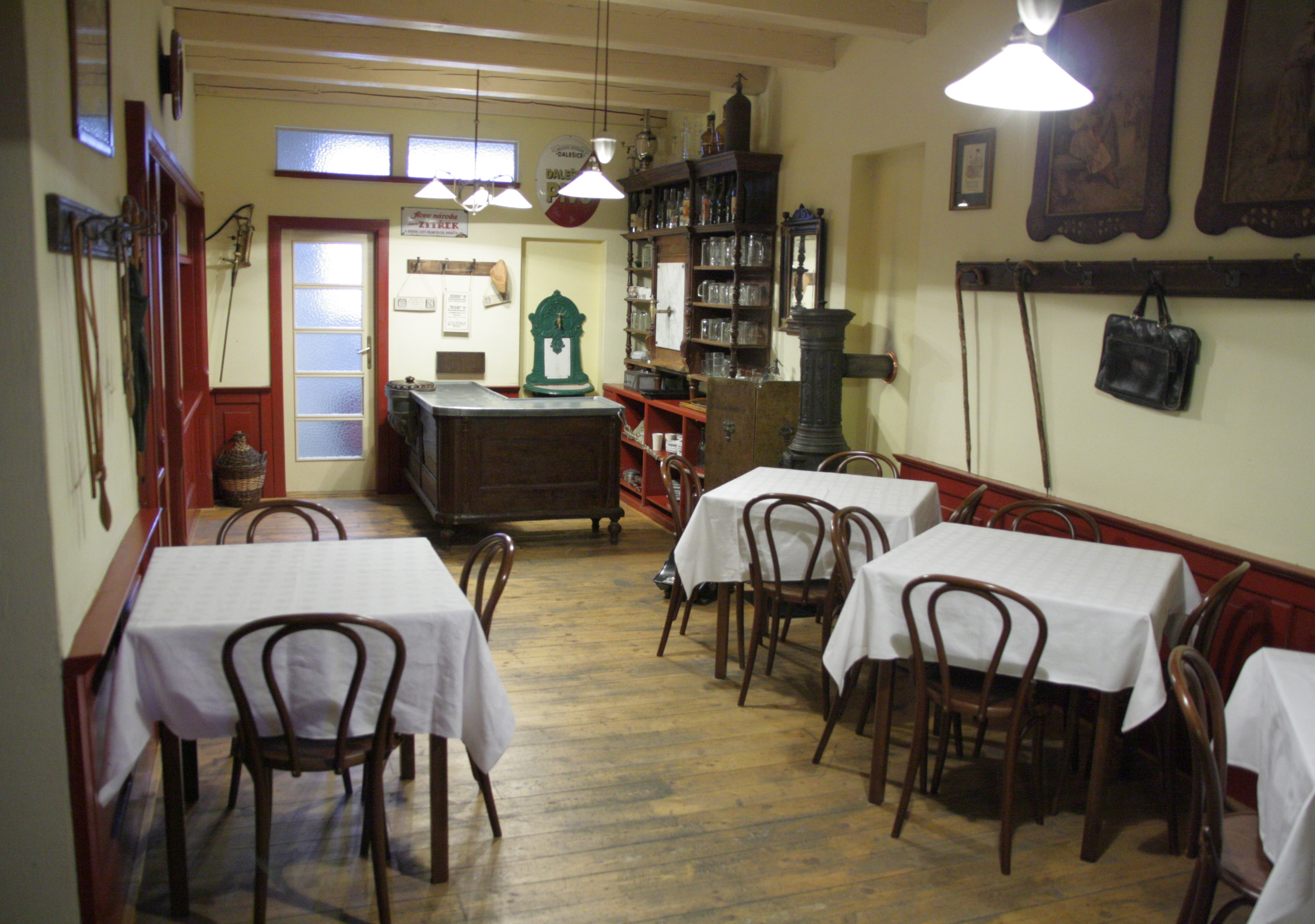 Interieor of czech pub from circa 1930. Technical museum in Brno, Czech Republic.